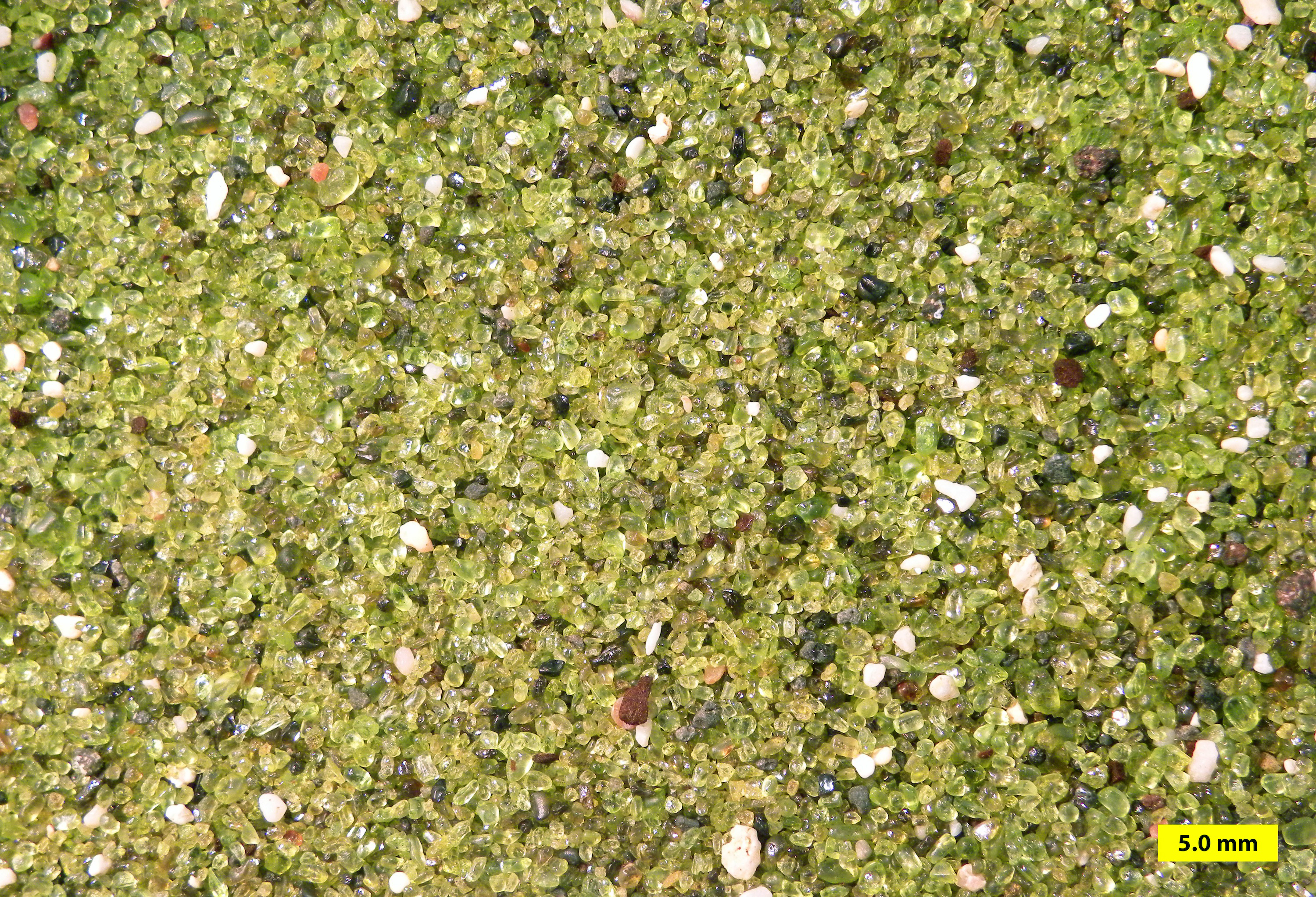 Papakōlea Beach sand near South Point, Kaʻū district, the island of Hawaiʻi. Sample from Lizzie Reinthal.